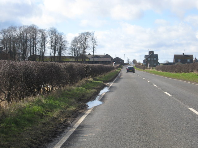 The road to Cornhill The A697 heading towards Crookham Westfield Farm.